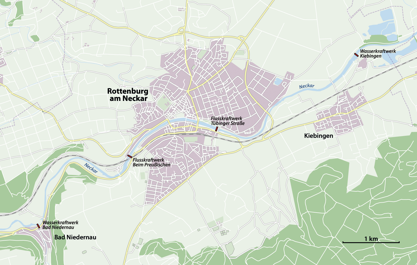 Map of hydro power plants in Rottenburg am Neckar, Germany This map may be incomplete, and may contain errors. Don't rely solely on it for navigation.